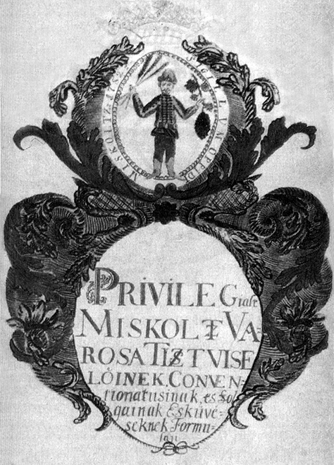 Old book title page (1782), displaying the seal of Miskolc, Hungary